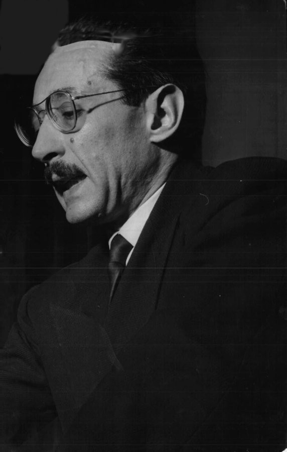 Edgardo Sogno